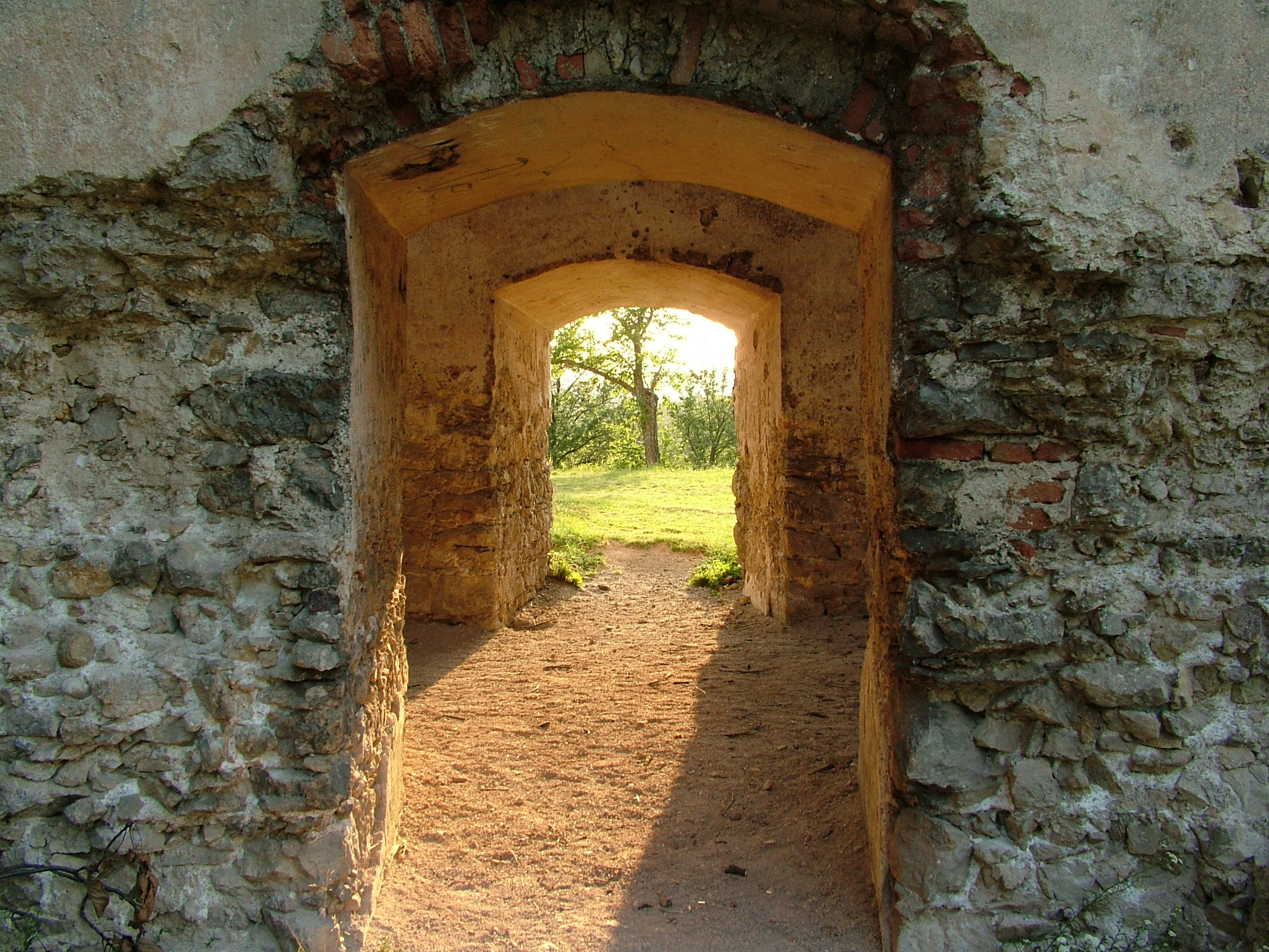 Katarínka 2007 This medium shows the protected monument with the number 207-958/2 in the Slovak Republic.